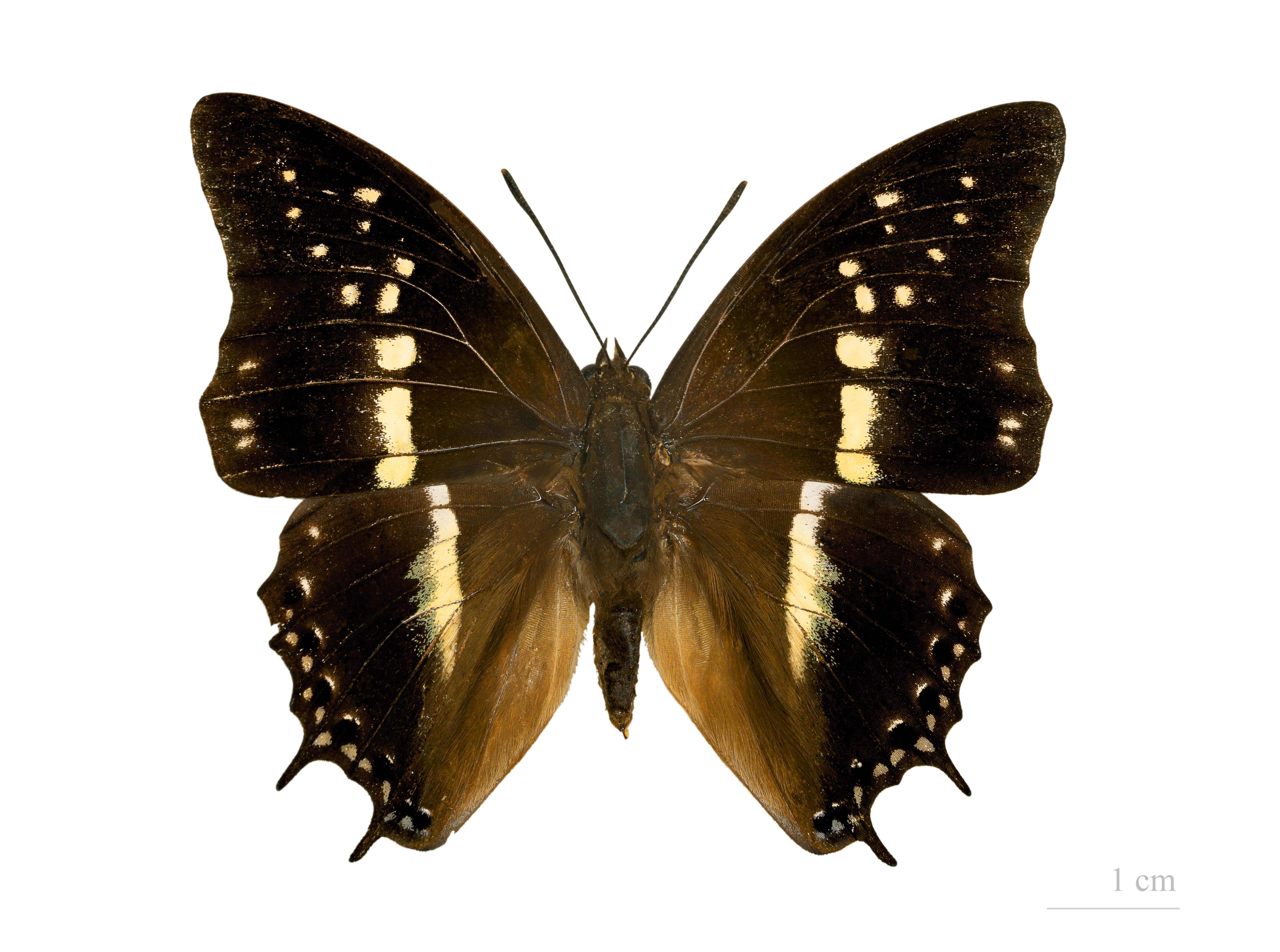 ♂ - Dorsal side Locality: Sulawesi Indonesia.